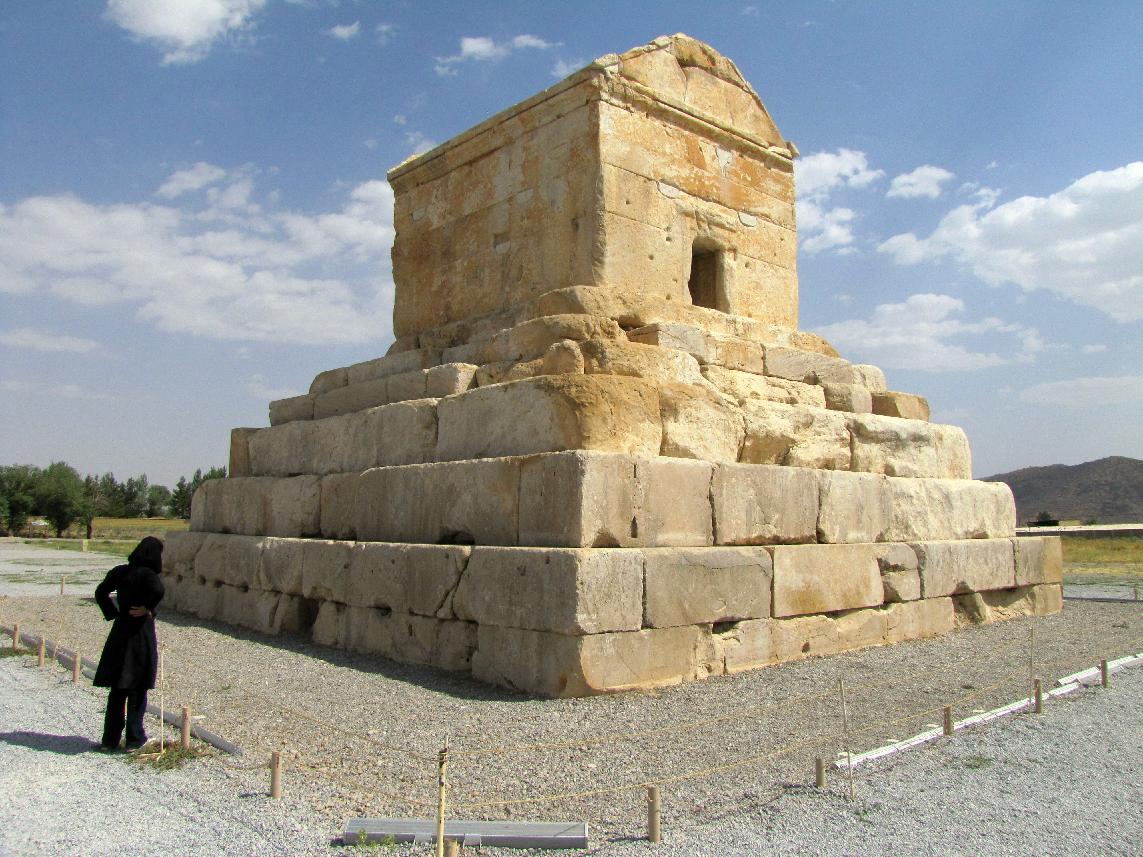 Pasargard; tomb of Cyrus the Great, founder of Persian Empire and Achaemanid. Cyrus the Great died in 530 BC. -- Photo by Isa Pakdel / PDN